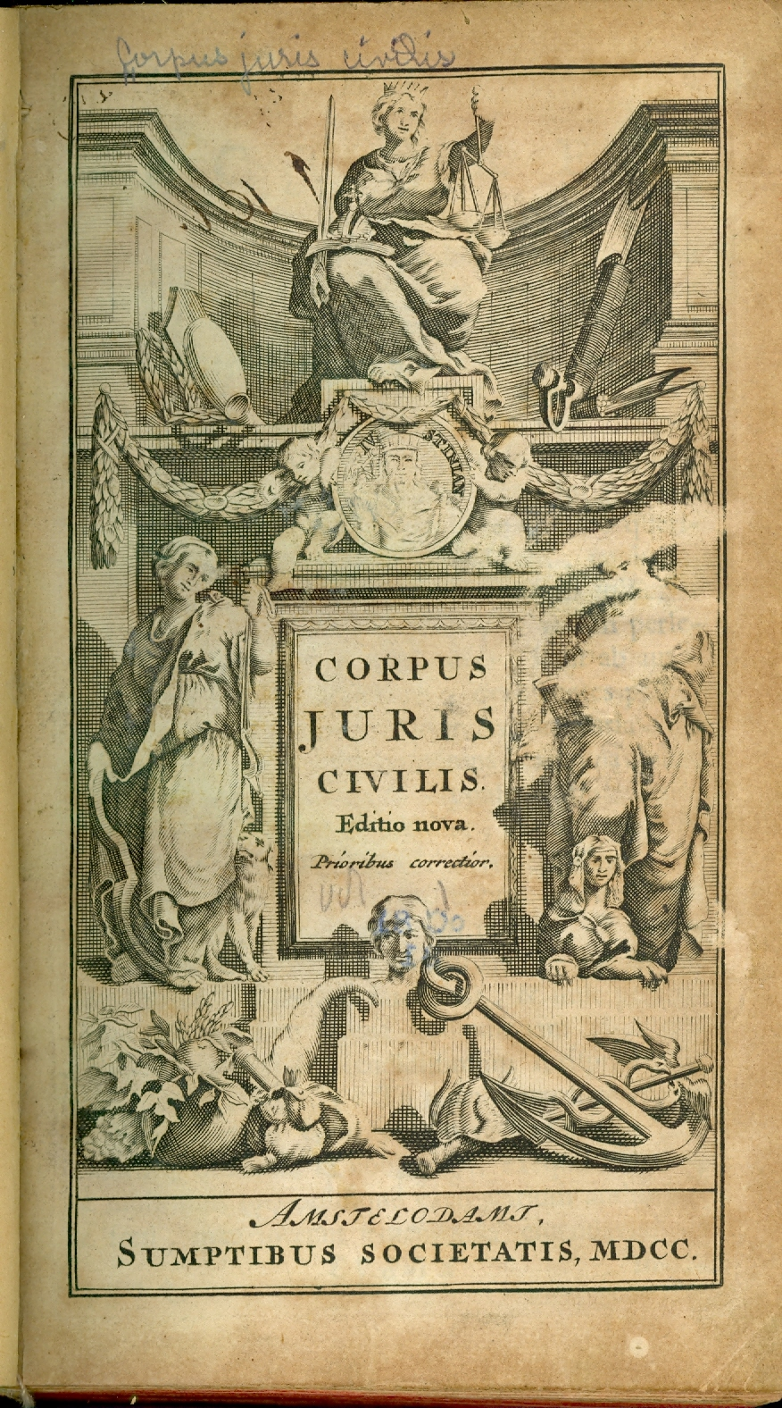 Source: CORPUS JURIS CIVILIS (Amsterdam, 1700), call no. RL 22 B56 1700 v.1.